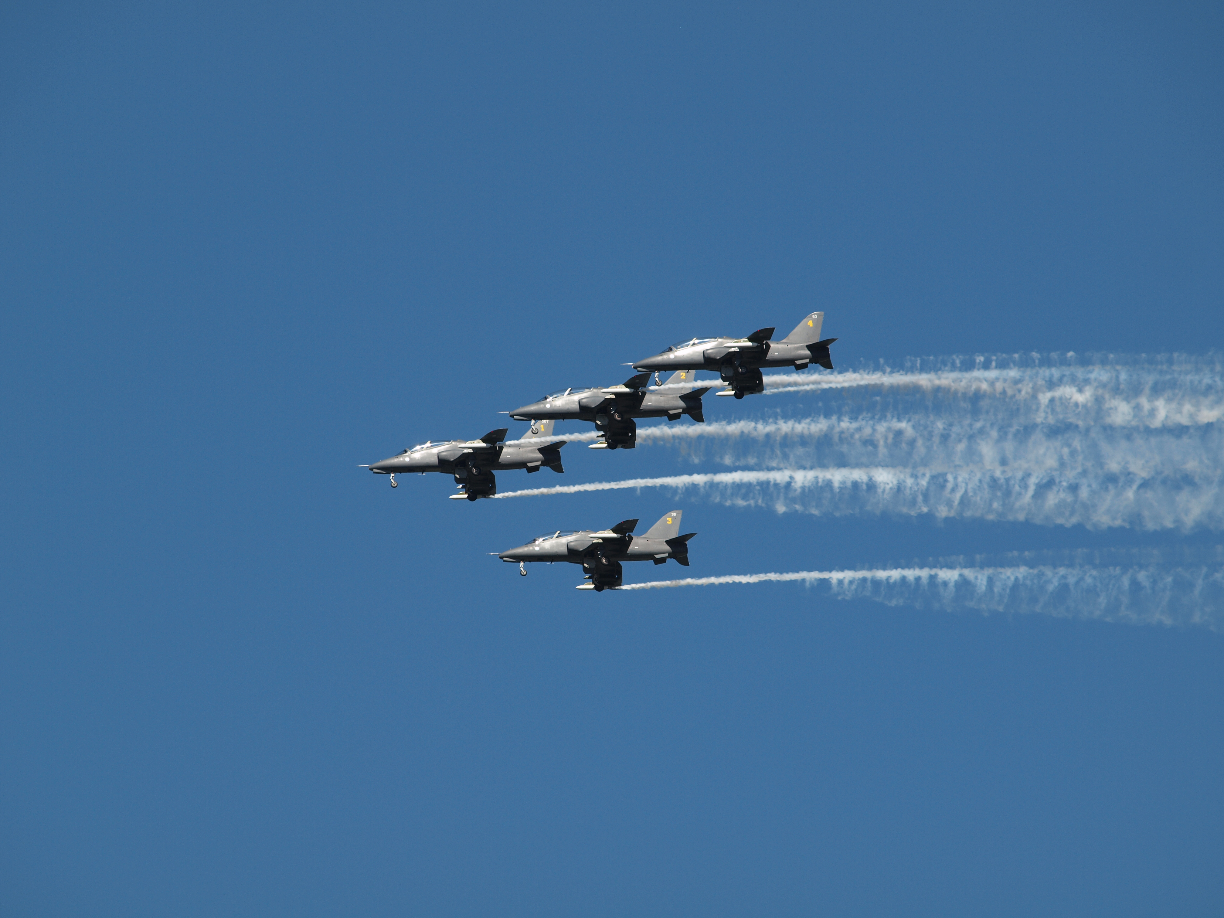 Midnight Hawks, a team of four fighter aircraft and their stunt pilots, performing at the Malmi 80 years Airshow at Helsinki-Malmi Airport in August 2016.